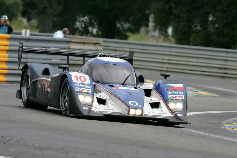 Tomas Enge - 24 Hours Du Mans 2008